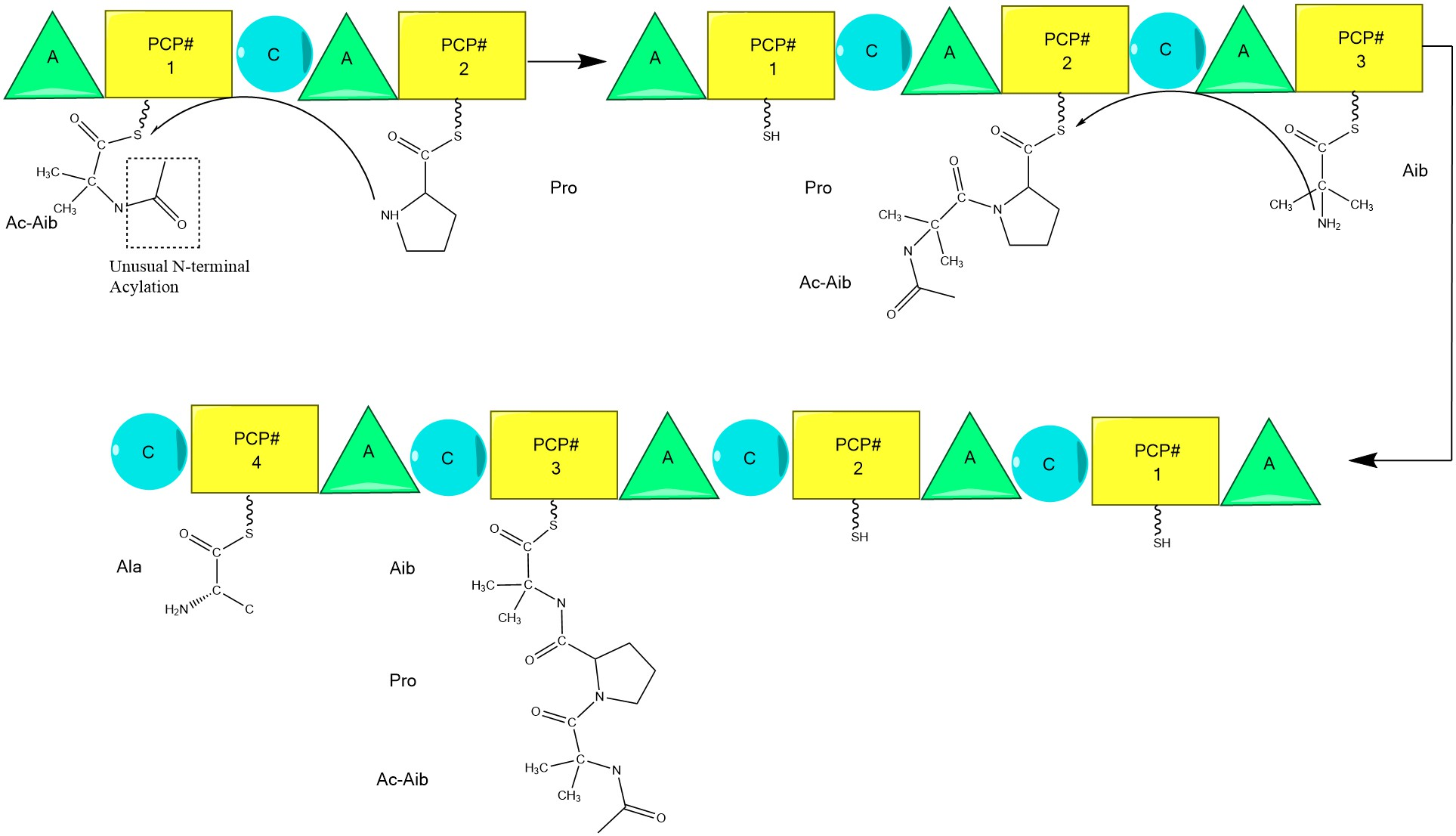 A resized basic description of NRPS